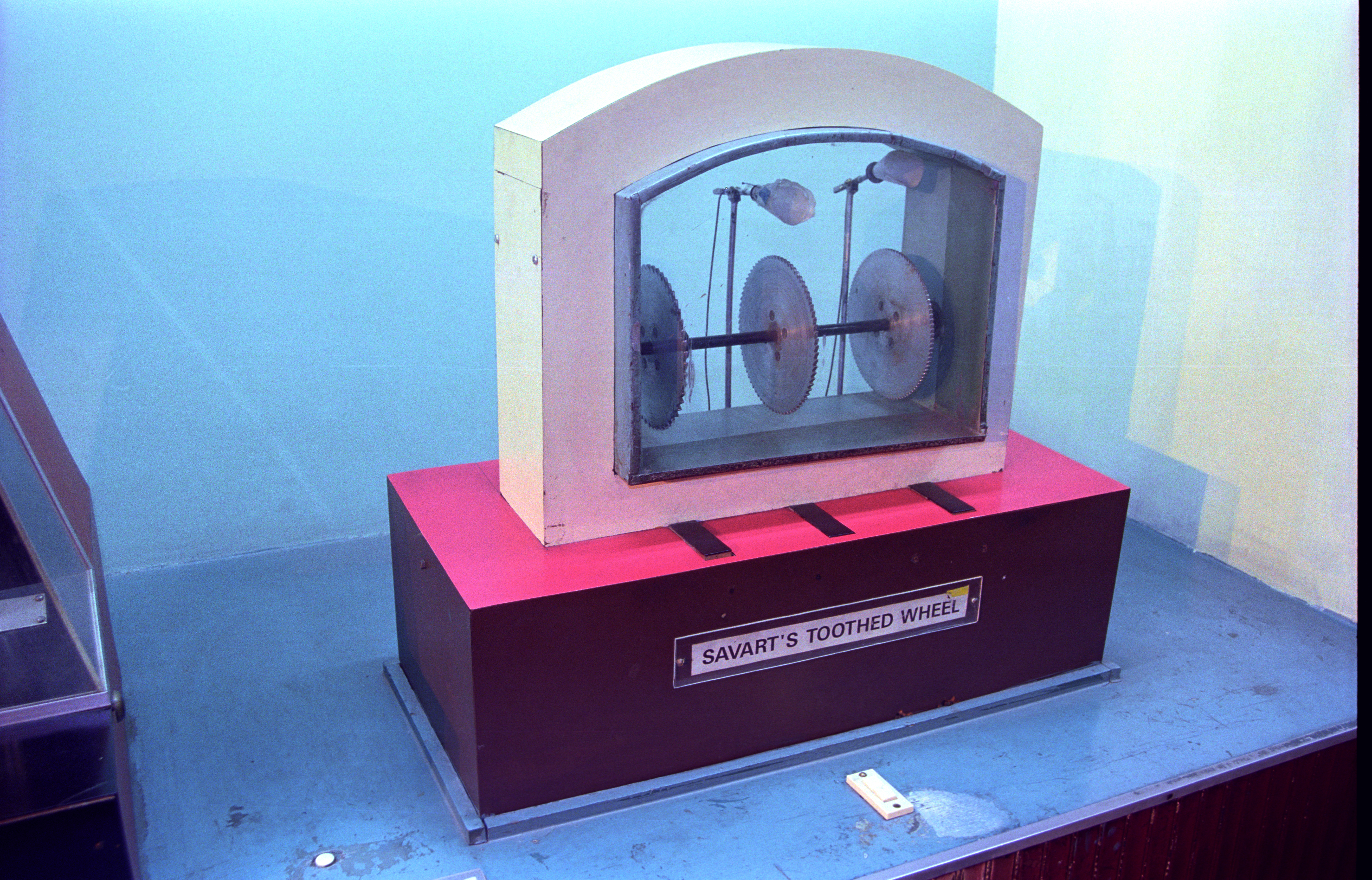 This photograph of exhibit was taken at the Birla Industrial & Technological Museum (BITM), Calcutta, in the year 2000.